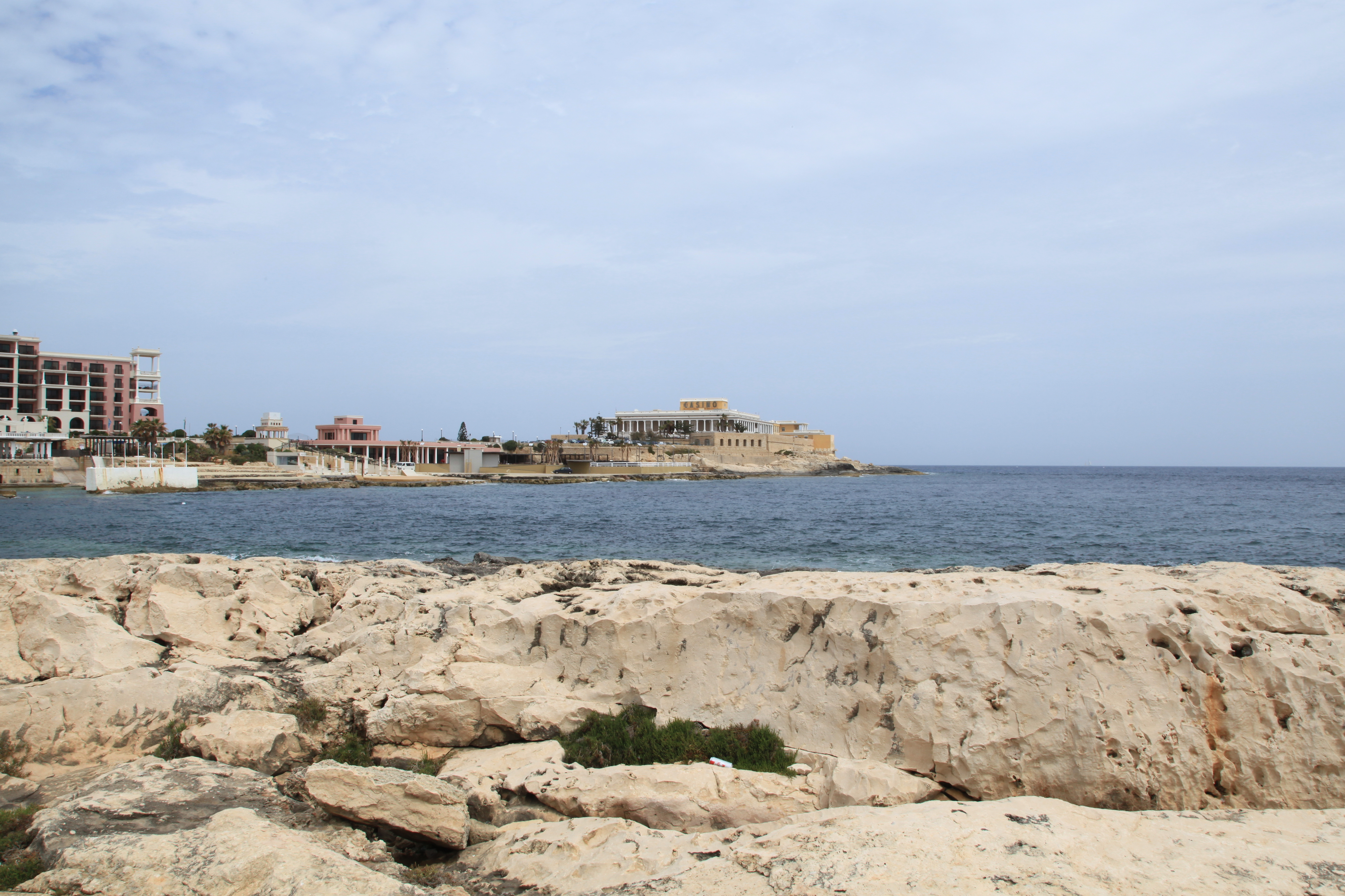 Triq il-Wilga (front) and Triq id-Dragunara (rear) in St. Julian's, Malta